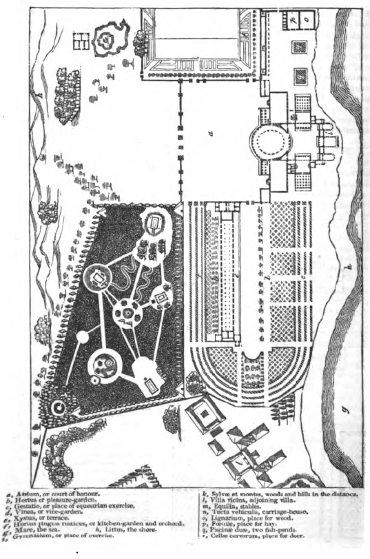 Villa Laurentina, near Rome, San Lorenzo, Picture in book of Loudon, J. C. (John Claudius), 1783-1843, An encyclopaedia of gardening; comprising the theory and practice of horticulture, floriculture, arboriculture, and landscape-gardening, including all the latest improvements; a general history of gardening in all countries; and a statistical view of its present stat, with suggestions for its future progress, in the British Isles (1828), page 29